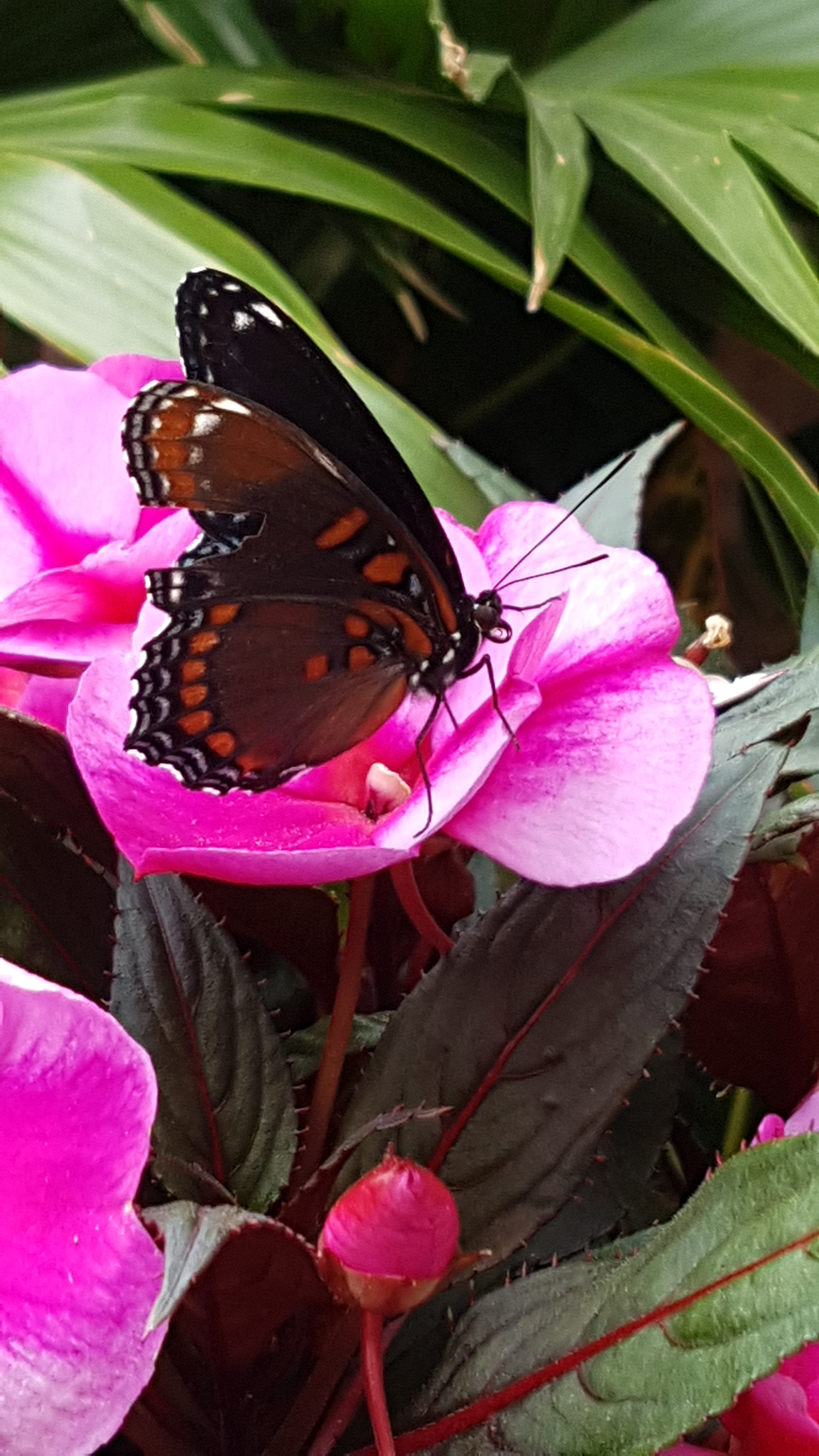 L Arthemis Mississauga Ontario Canada (2)